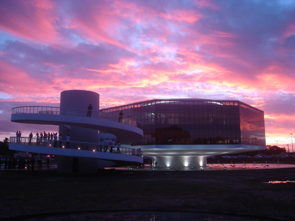 Estação Cabo Branco, a new turistic and cultural building in João Pessoa